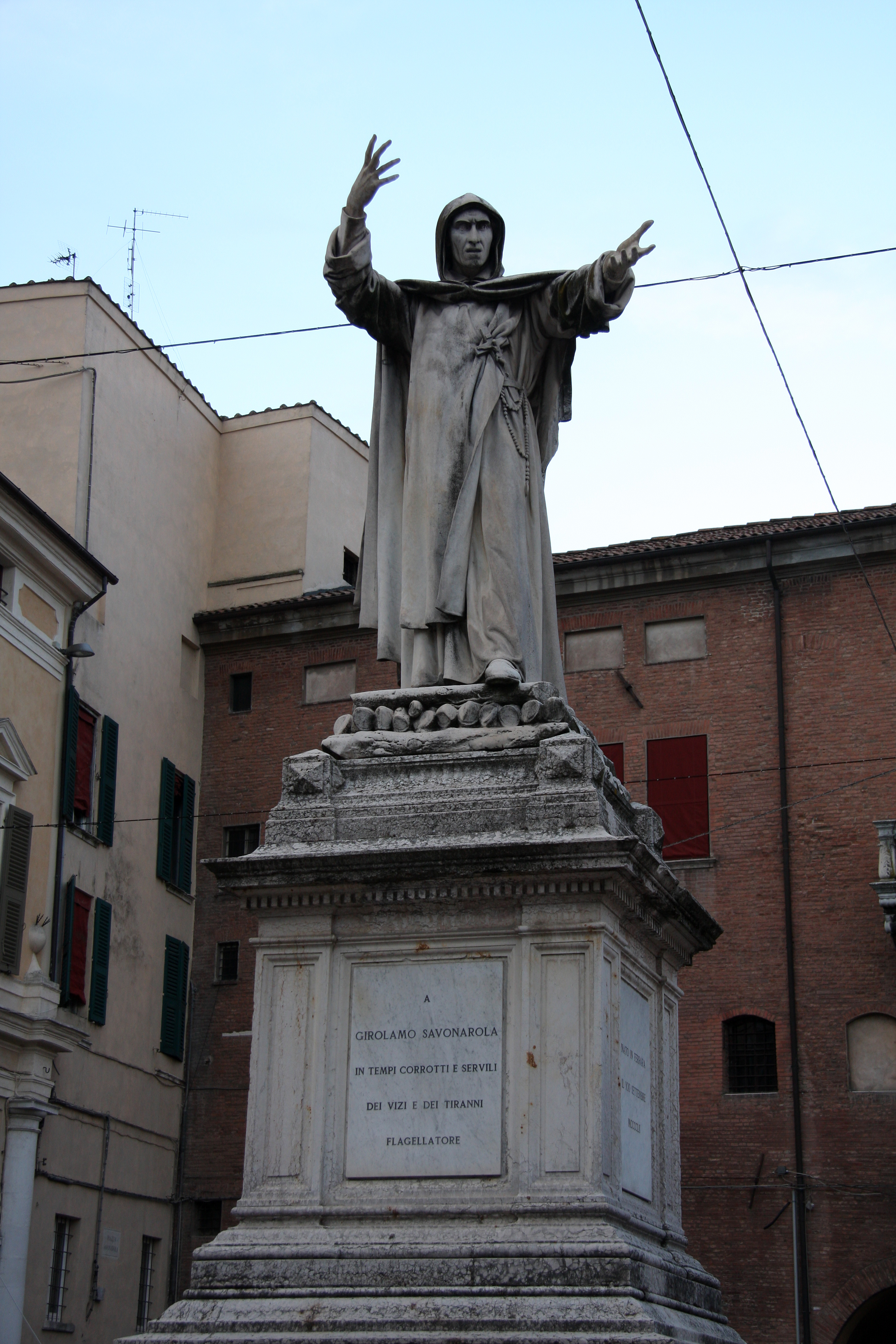 Monument to Girolamo Savonarola, Ferrara, Italy